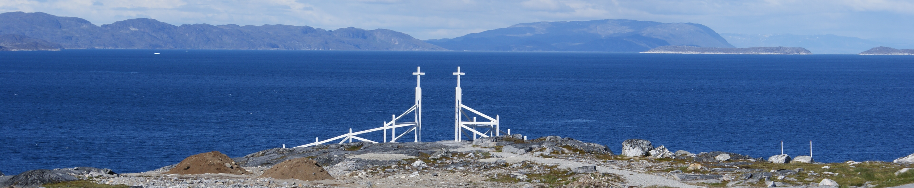 Nuup Kangerlua, a long fjord in southwestern Greenland. View from the southeastern shore of its lower run, just north of the Nuussuaq district of Nuuk, the capital of Greenland, and west of the Nuuk Airport.